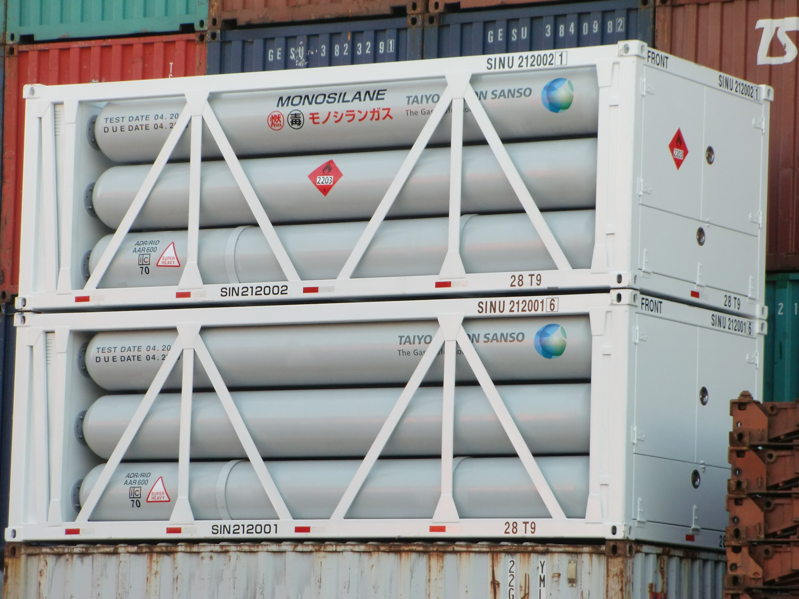 Tobishima Wharf in Aichi Prefecture, Japan